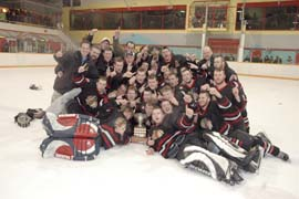 07 CHAMPS